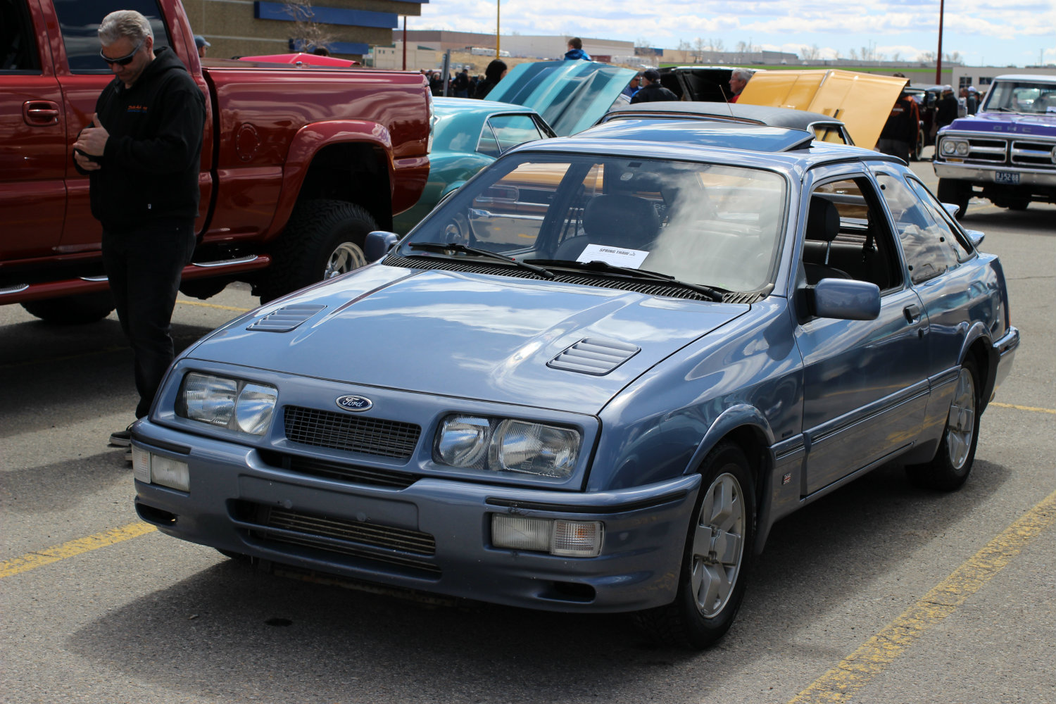 1987 Merkur XR4Ti modified to look like a Ford Sierra Cosworth. The owner had an interesting automotive history with ownership of some Plymouth Crickets as well.